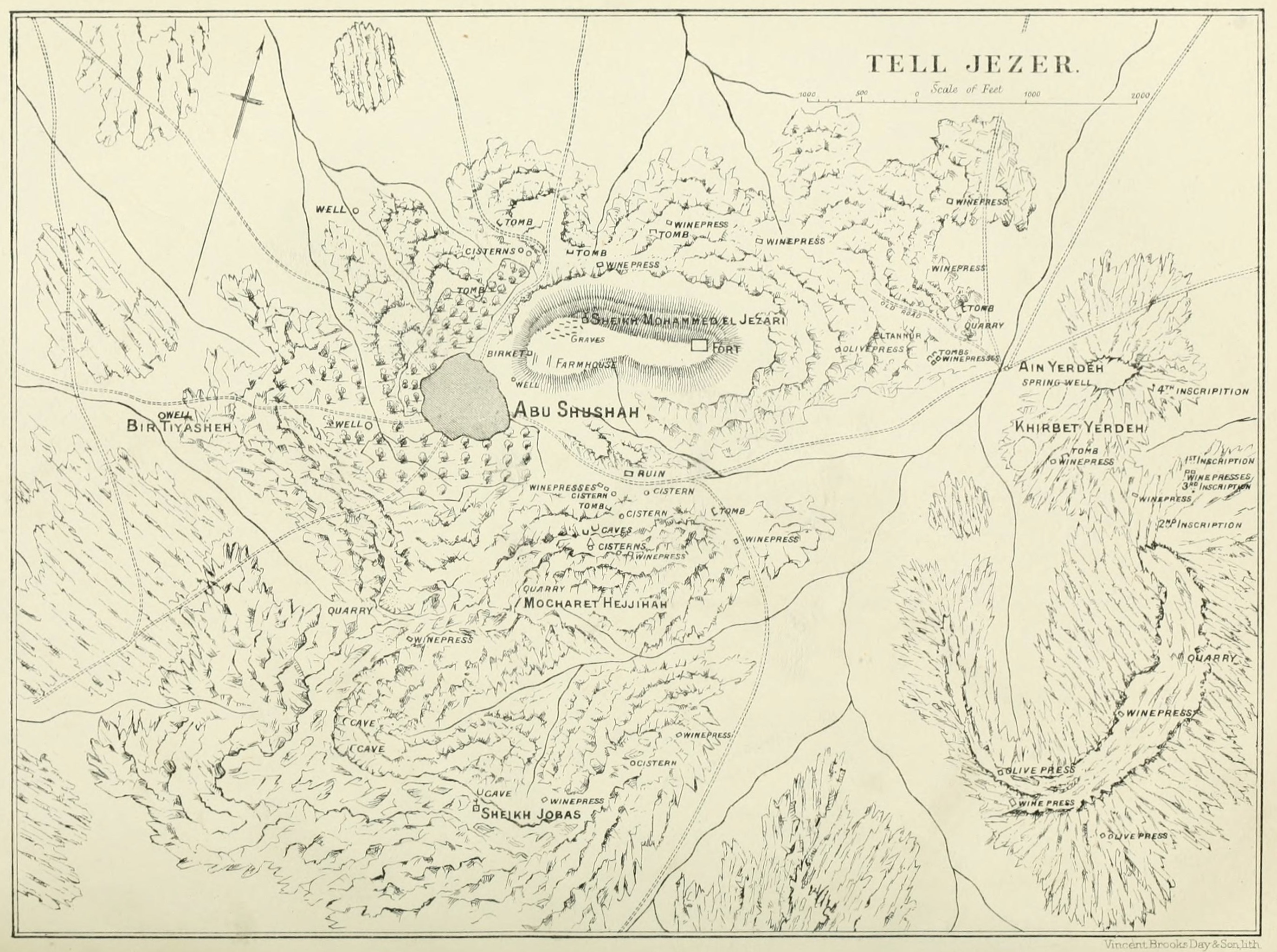 Tell Jezer from the 1871-77 Palestine Exploration Fund Survey of Palestine